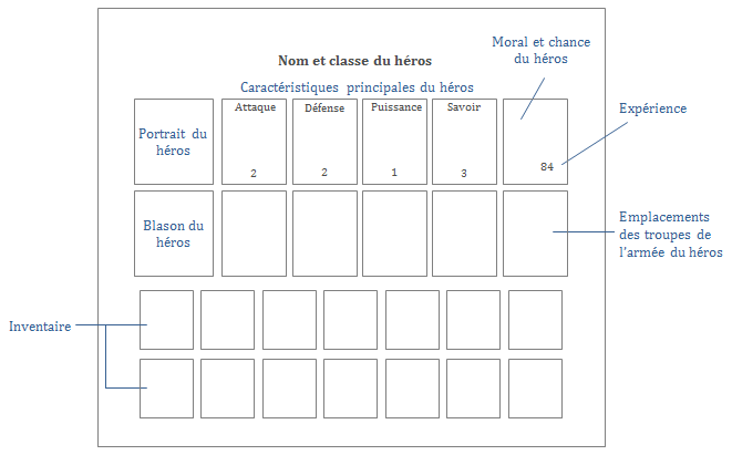 Diagram showing the functionalities of the interface of the adventure map in the video game Heroes of Might and Magic: A Strategic Quest.